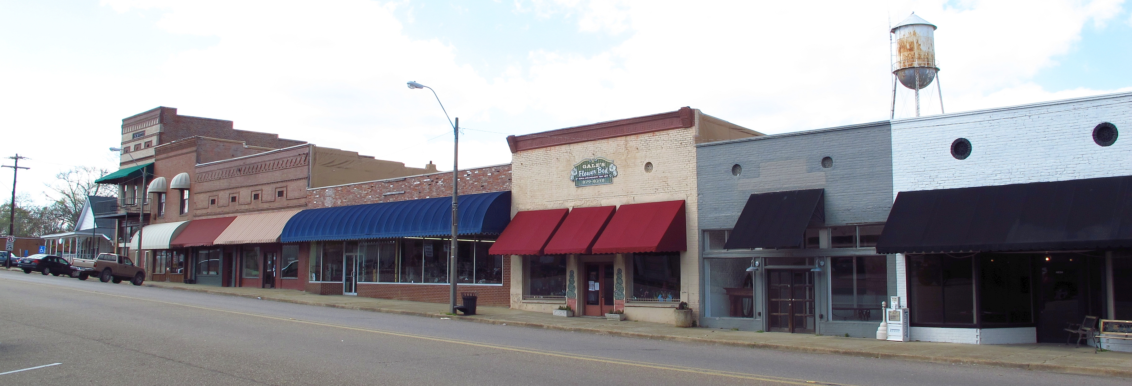 East Main Street in Flora, Mississippi.